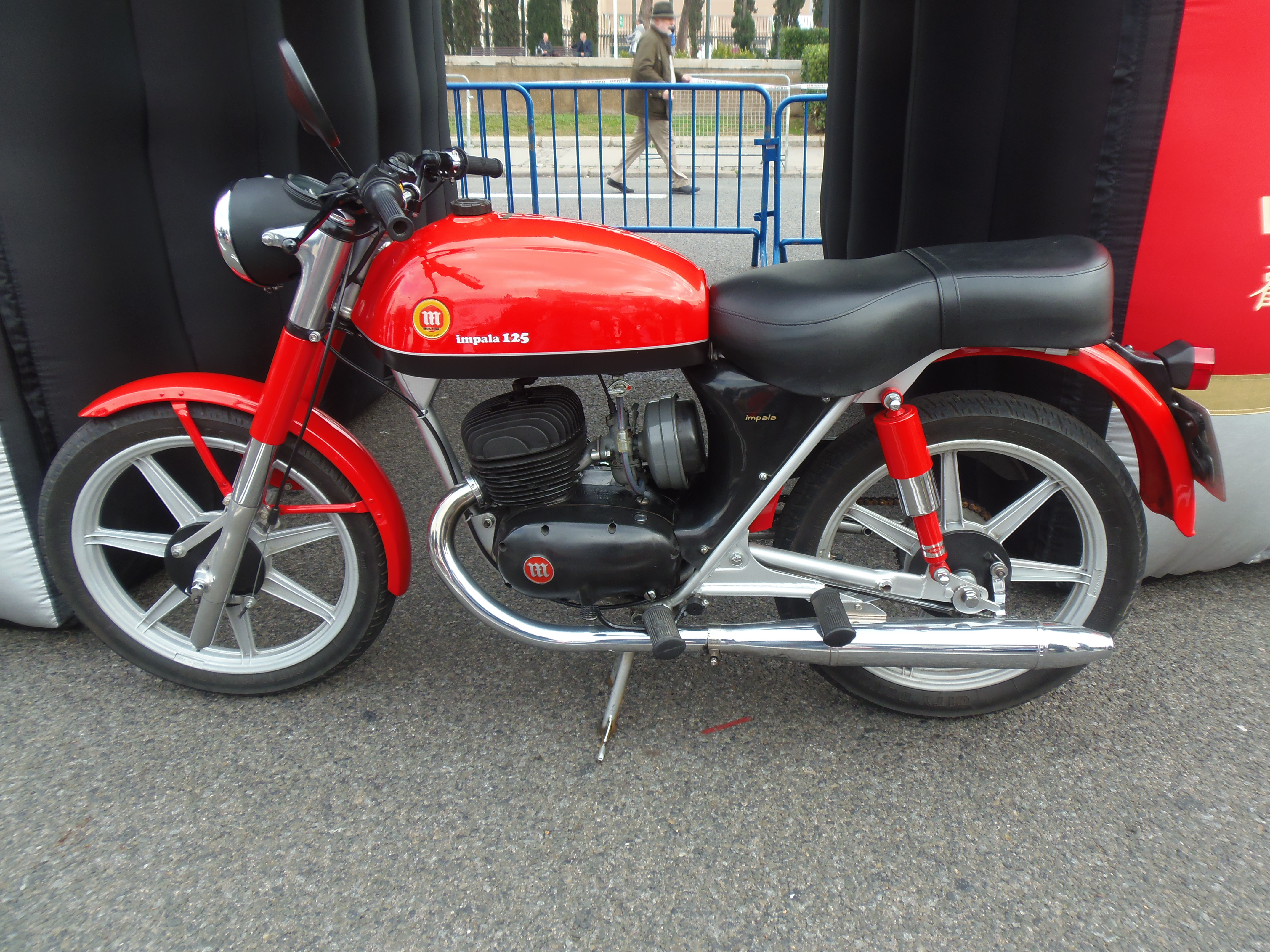 Montesa Impala 2 125, 1982